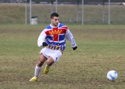 acbc kits